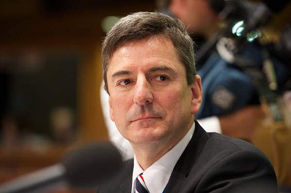 Portrait picture of the Secretary General of the Congress of Local and Regional Authorities, Andreas Kiefer, who was elected in 2010